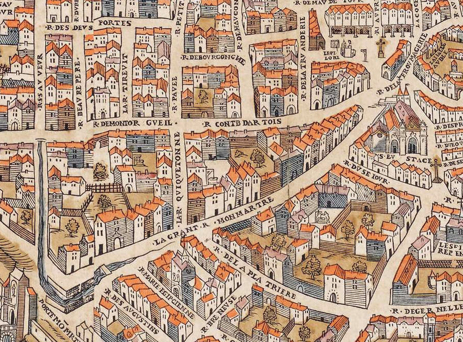 Montmartre street on the Plan of Truschet and Hoyau (1550).